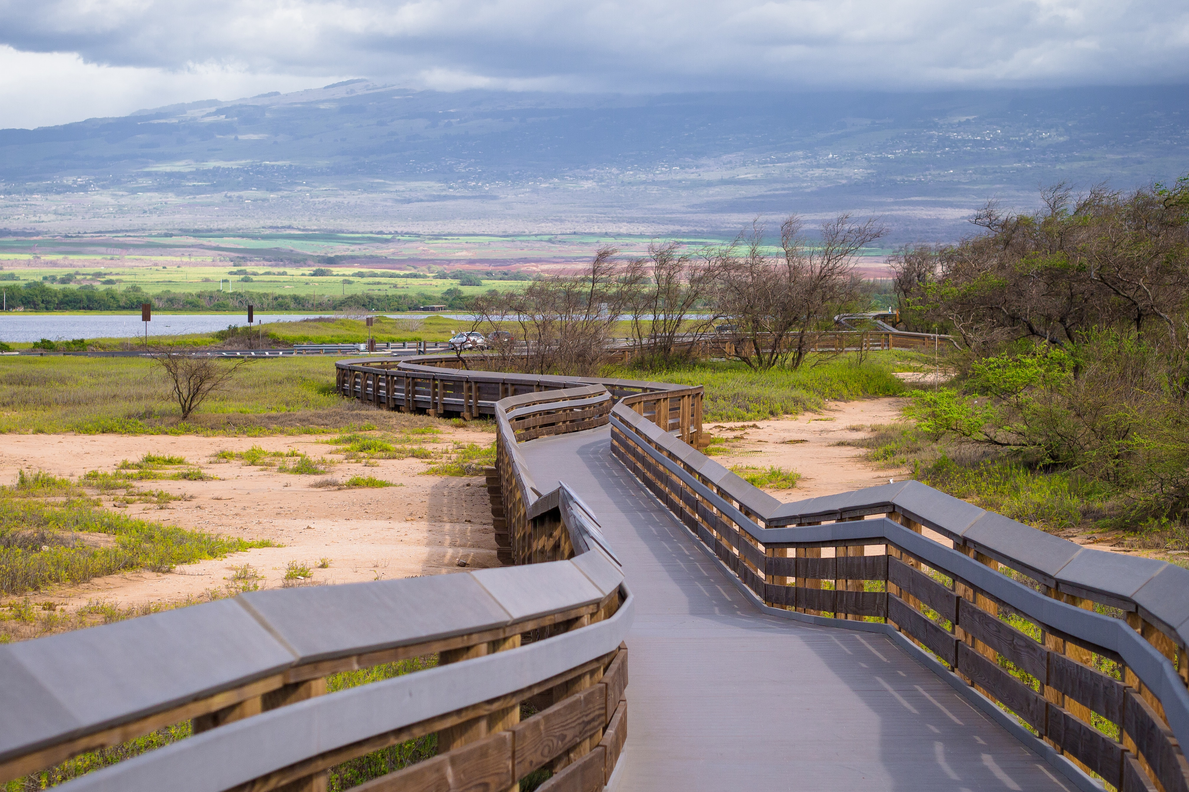 Going down the boardwalk